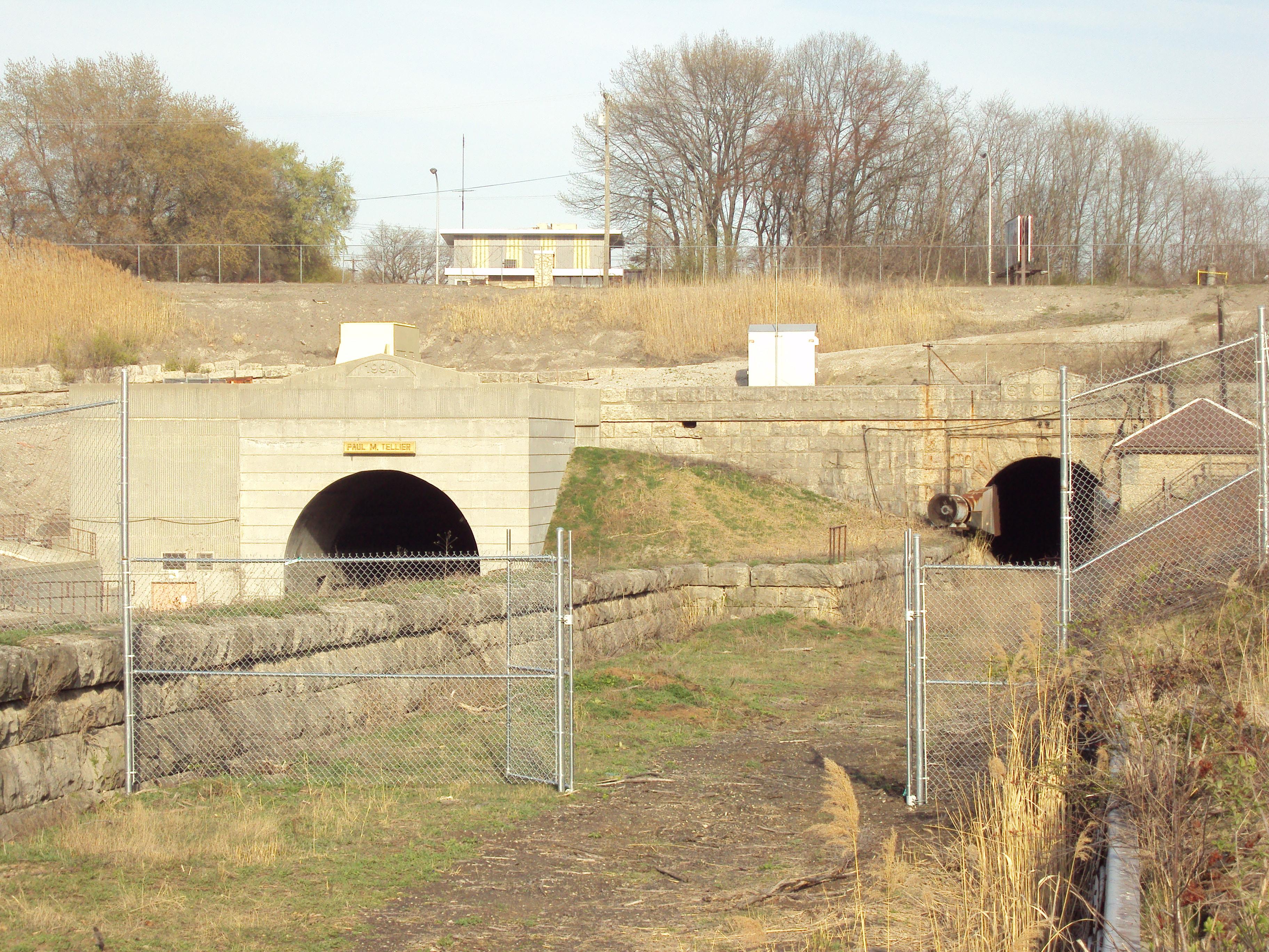 St. Clair River Tunnel (Port Huron, Michigan)